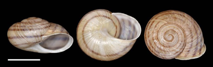 Composition of the 3 main views of the shell of A. campanyonii tanitianus. Locality: Cala Salada (Eivissa)